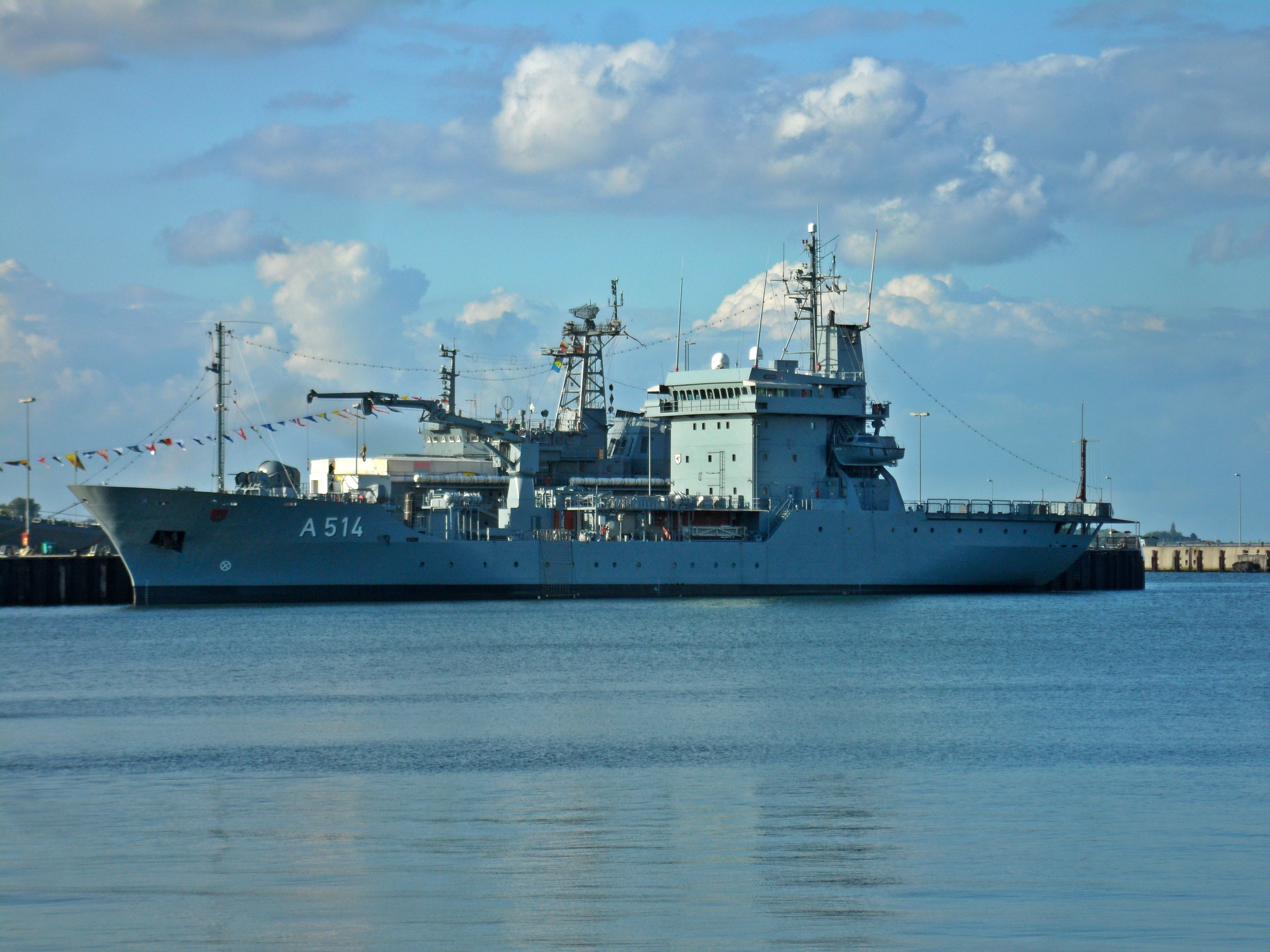 Tende Werra (II) A 514 in Kiel, Germany